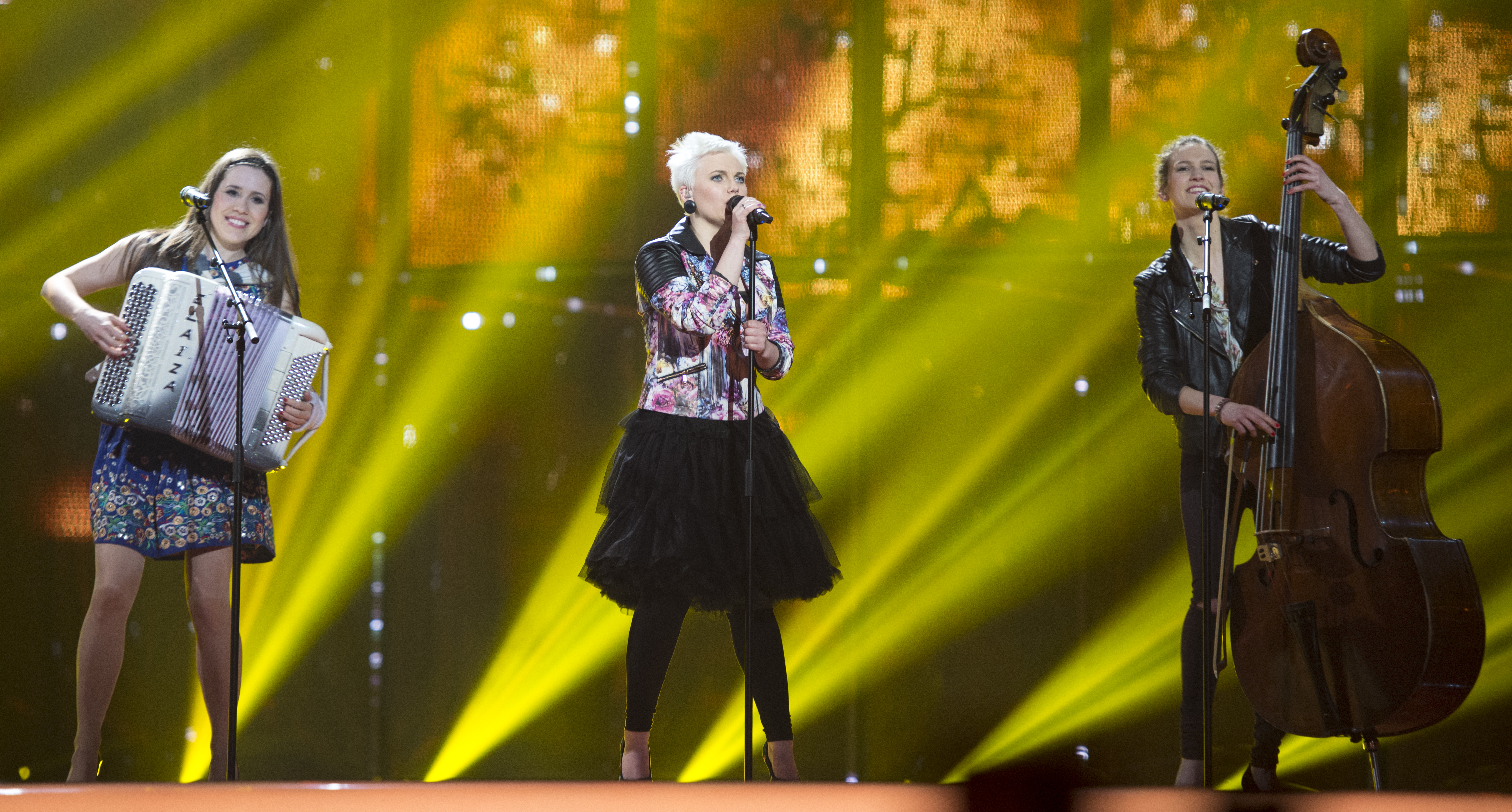 Elaiza representing Germany with the song "Is It Right" during the first dress rehearsal of the final of the Eurovision Song Contest 2014 Copenhagen. (Help translate this text)